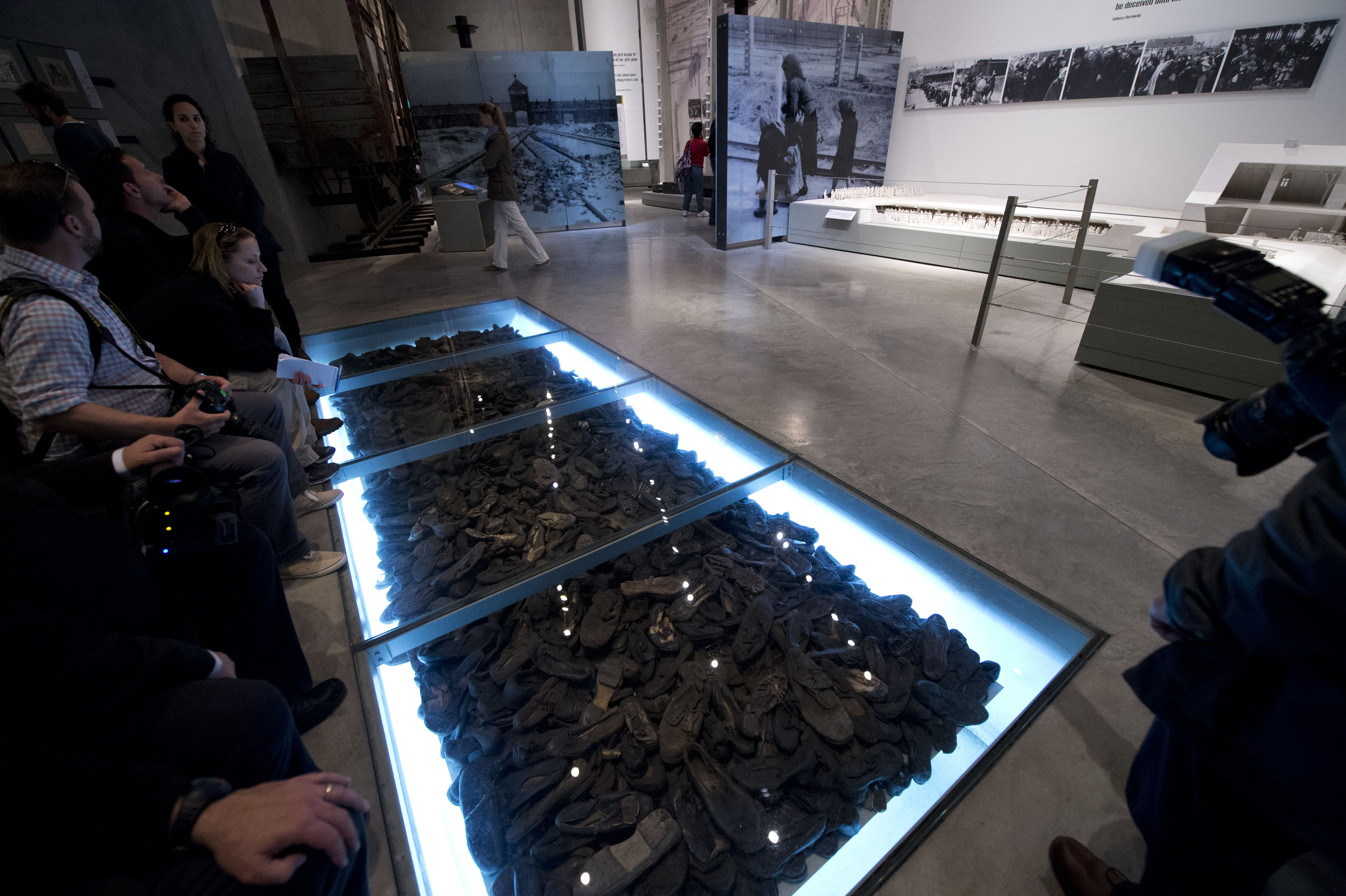 Secretary of Defense Chuck Hagel tours Yad Vashem in Jerusalem, Israel, April 21, 2013. Hagel will spend several days in Israel meeting with counterparts on a six day trip to the middle east.(Photo by Erin A. Kirk-Cuomo)